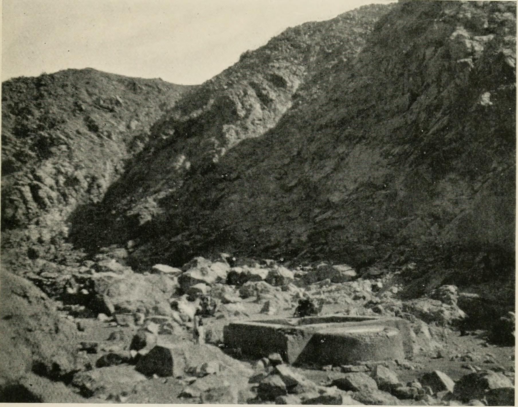 Title: Travels in the Upper Egyptian deserts Year: 1913 (1910s) Authors: Weigall, Arthur Edward Pearse Brome, 1880-1934 Subjects: Egypt -- Description and travel Egypt -- Antiquities Publisher: Edinburgh London, W. Blackwood and sons Text Appearing Before Image: theshadows. Riding on for another two hours we reached anopen ridge from which an extraordinary prospect ofrolling hills and innumerable humps was obtained.On the left of the pathway there was a hill at thetop of which stood a ruined Roman watch-tower,one of a chain of such posts which crowned thehigher peaks all along the route. Up this hillwe scrambled on foot, and climbed the tower atthe summit, burning a pipeful of tobacco to thegods of Contentment thereon. The array of hillsaround us, as closely packed and yet as individualas the heads of a vast crowd of people, were ofa wonderful hue in the morning light. Thoseto the north were a dead grey, those to the eastwere pink and mauve, and those to the southevery shade of rich brown, while the shadowsthroughout were of the deepest blue. The windtore past us as we sat contemplating the fair worldat our feet, and two black ravens sailed by on it totake stock of us. Far below the path wound itsway through the humps; and in the distance the Text Appearing After Image: Bir es Sid, the well at the highest point of the Red Sea highroad.—Page 65.